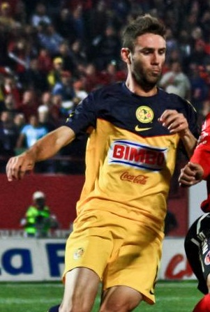 America player Miguel Layun